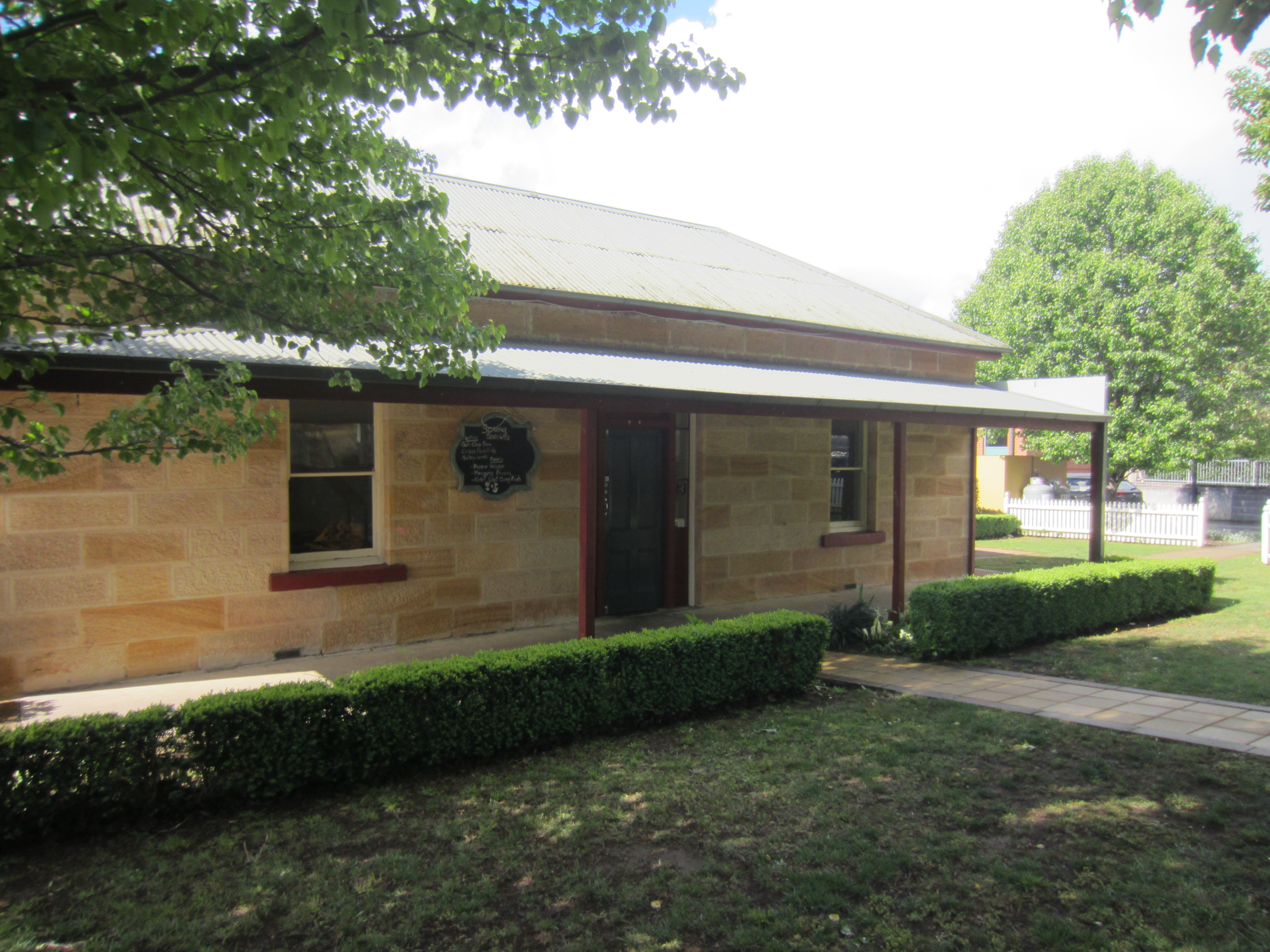 This sandstone cottage, known as ironstone cootage was built by the Fitzroy Iron Works and used as the residence of their manager.